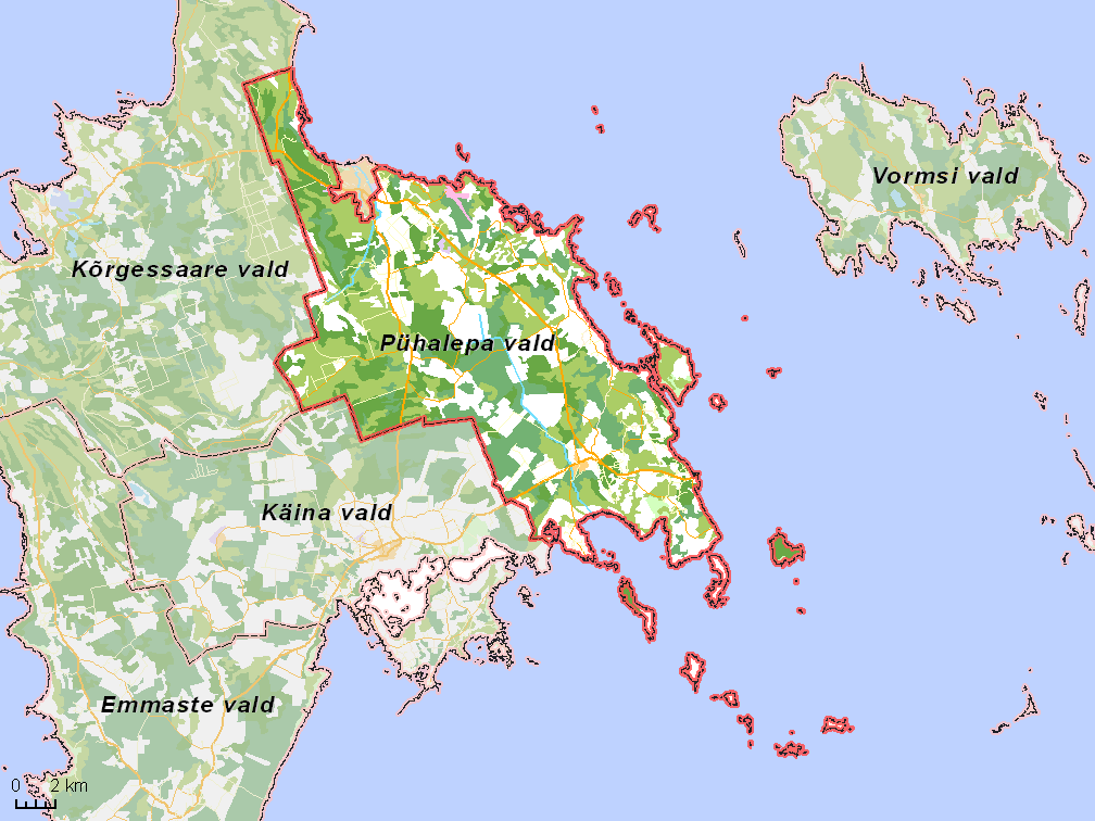 Map of municipality in Estonia